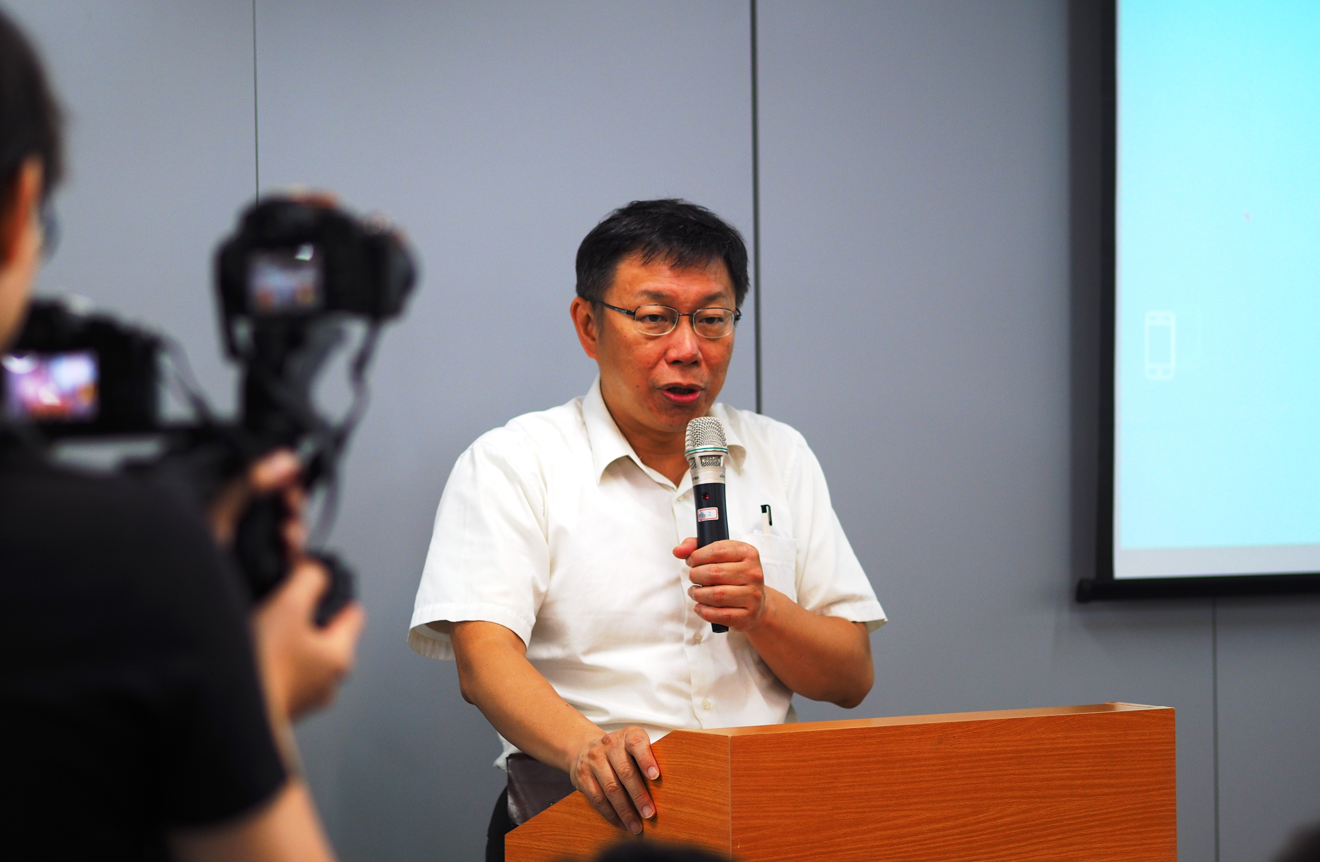 Ko Wen-je